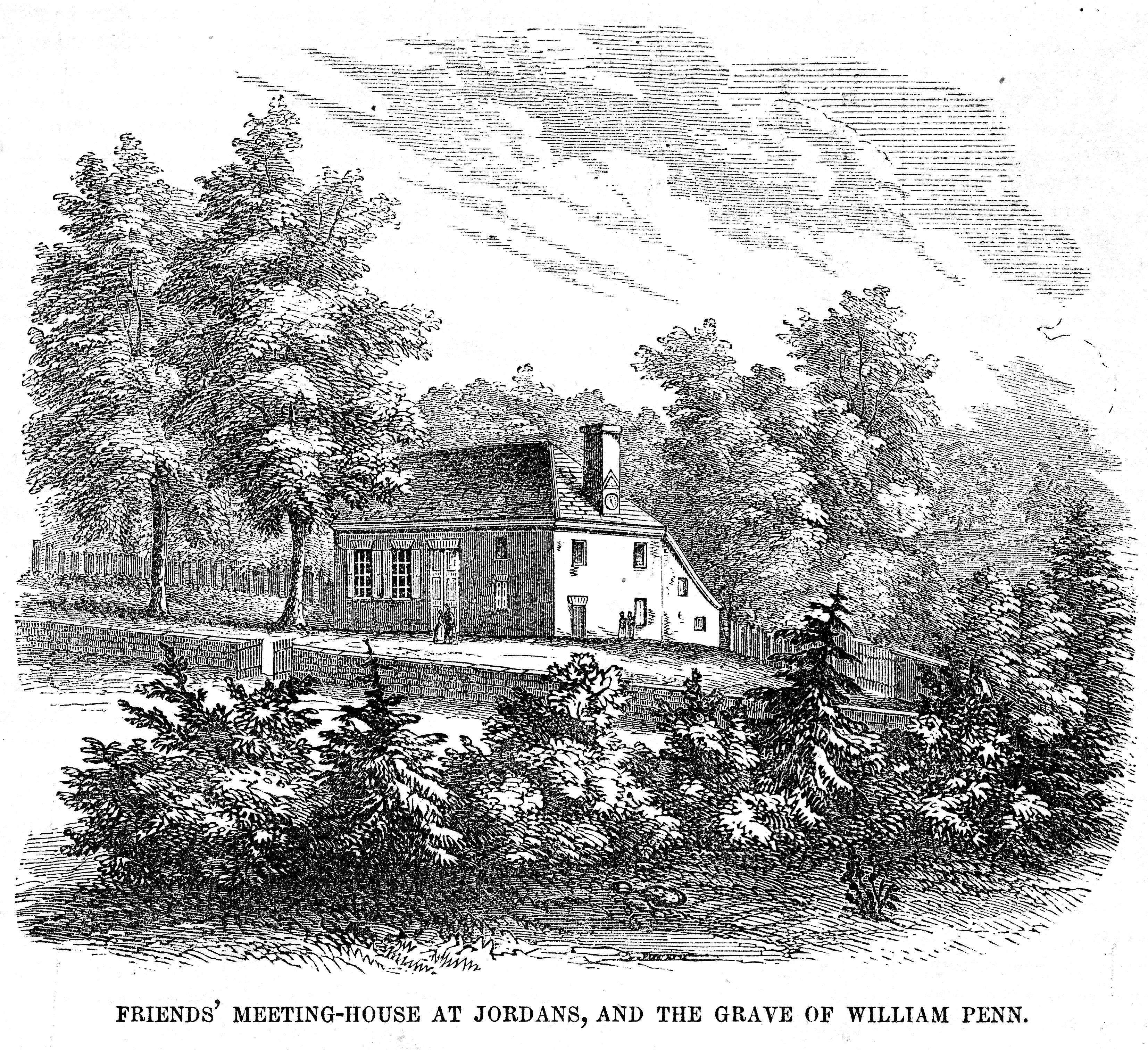 "Friends' Meeting House at Jordans and Wm. Penn's Grave" 1854 (wood engraving)